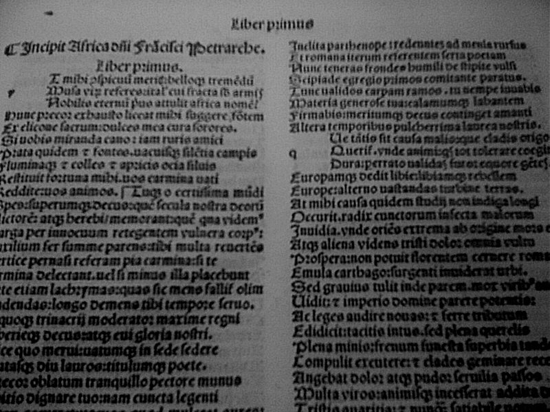 "Africa" V.2 - Petrarch's 1501 Latin collection. First page of poem.